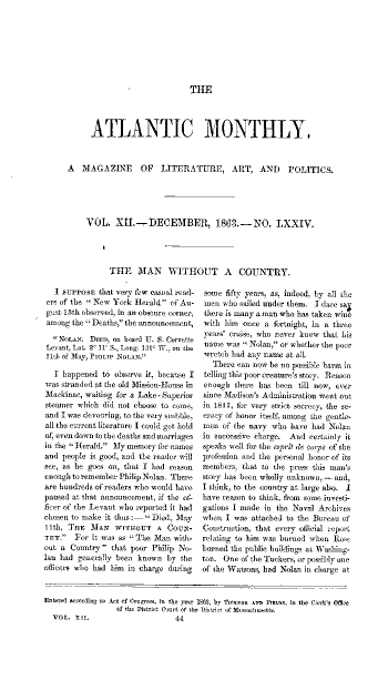 First publication of "The Man Without a Country," a short story by American writer Edward Everett Hale. From The Atlantic Monthly for December 1863 (vol. 12, issue 74): 44.